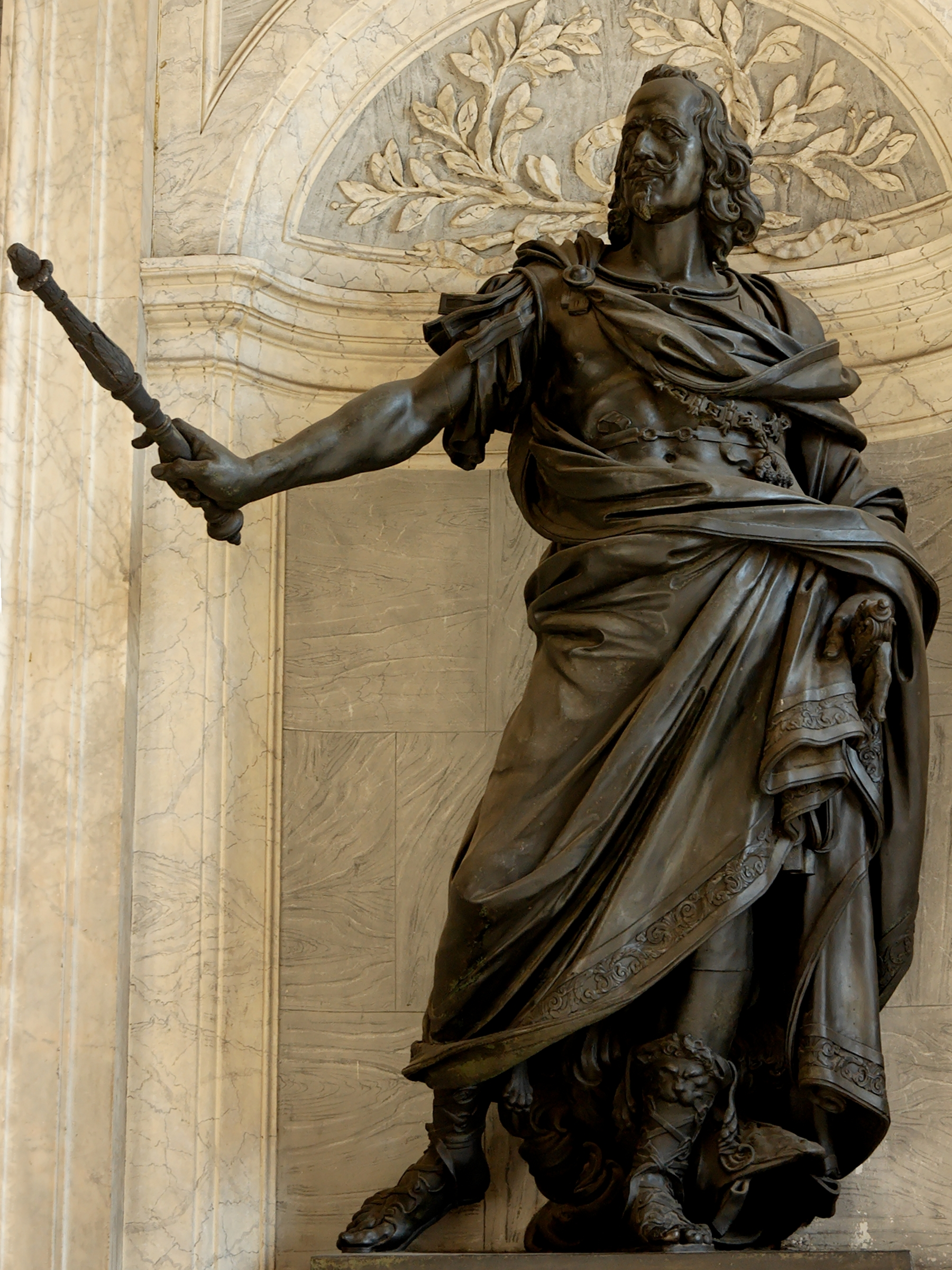 Statue of Philip IV of Spain (1692), after a model by Bernini. Portico of Basilica di Santa Maria Maggiore in Rome.